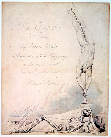 One of William Blake's watercolour illustrations for Robert Blair's poem The Grave.